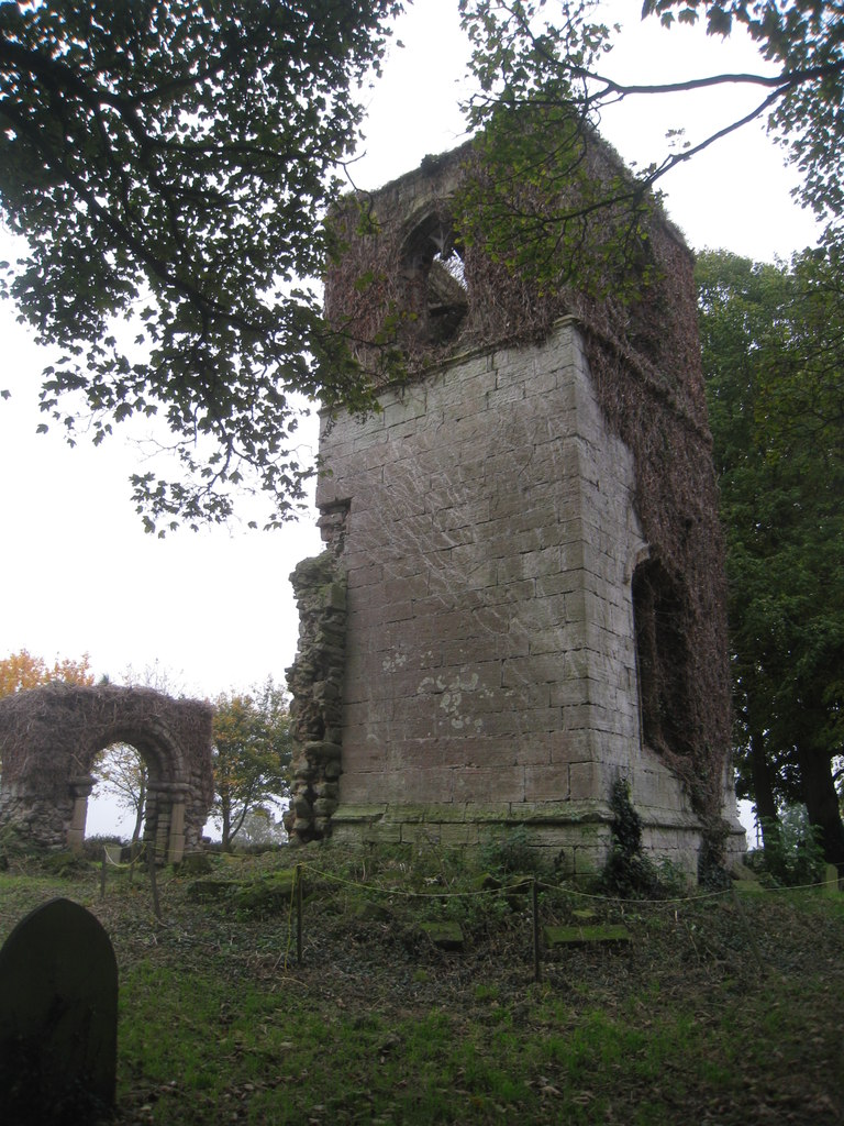 West tower of the ruined St Helen's parish church, South Wheatley, Nottinghamshire